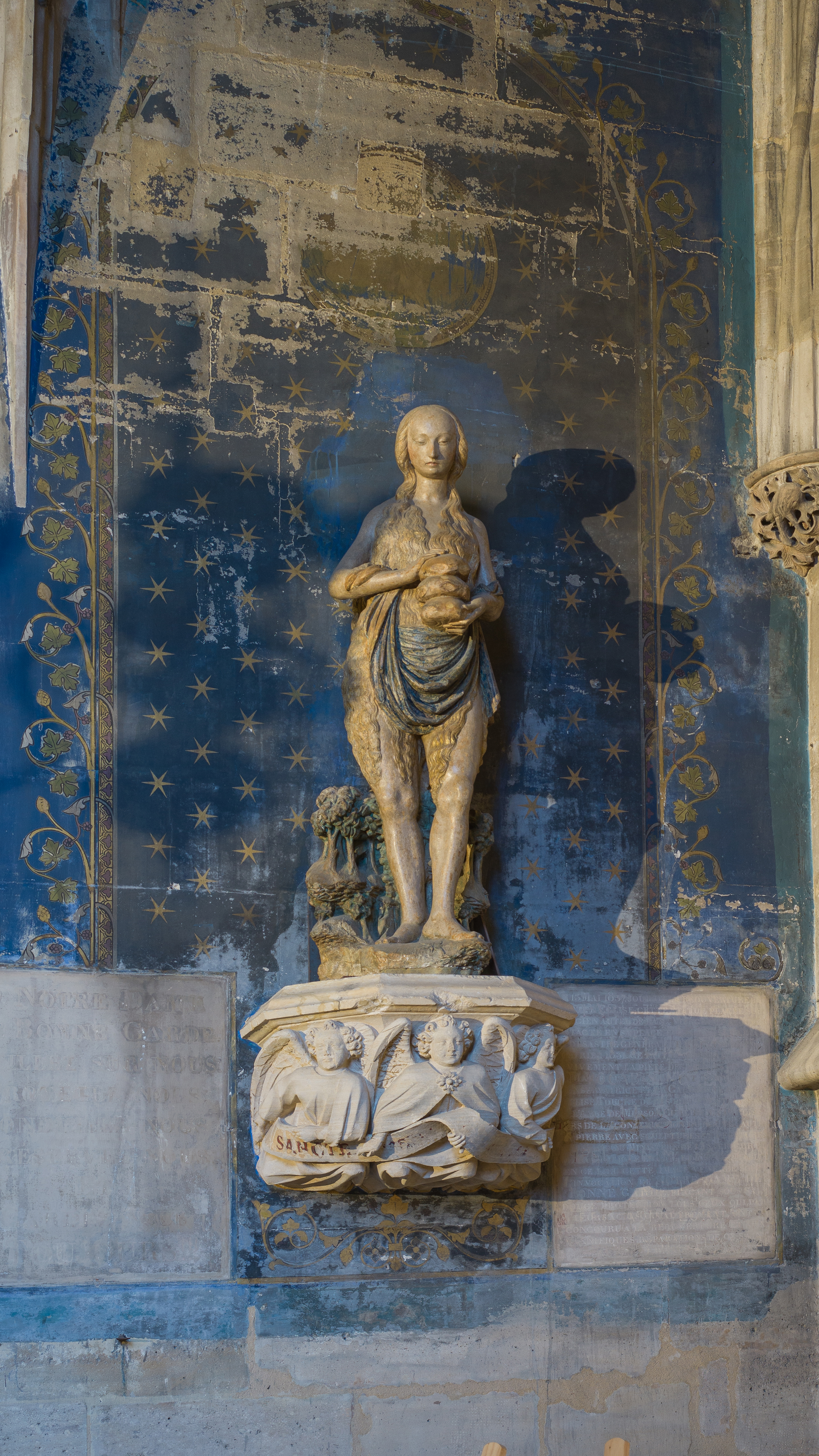 Statue of Mary of Egypt in the Saint-Germain l'Auxerrois church in Paris, France